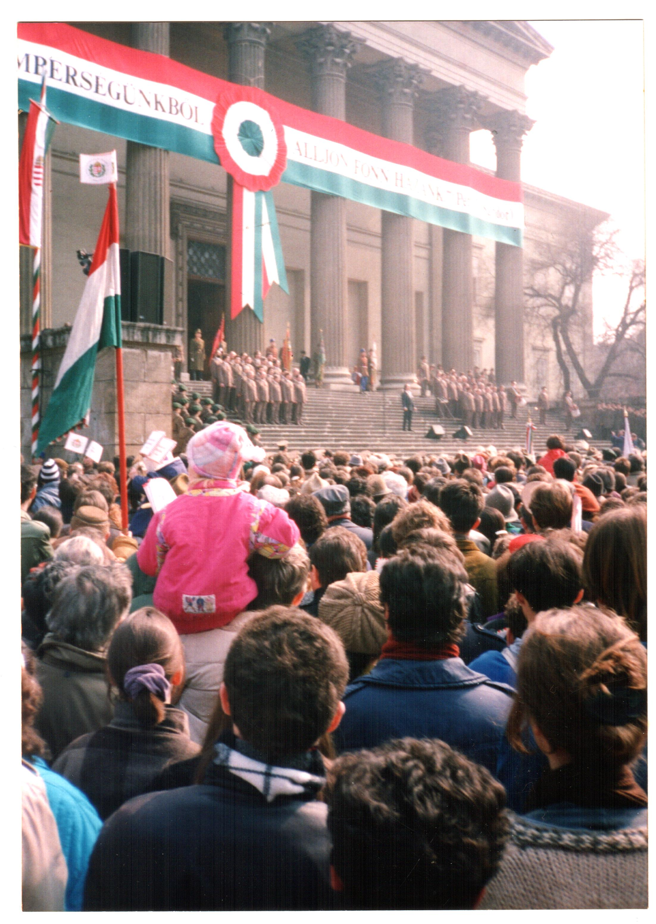 Március 15-i ünnepség a Múzeumkertben, Budapesten.